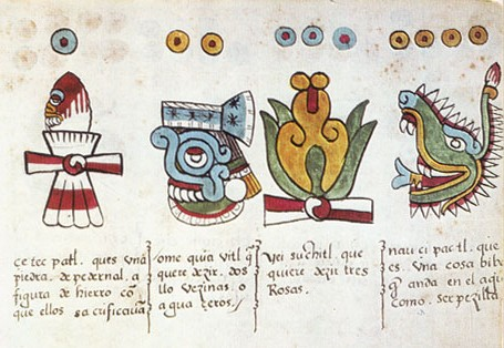 Page 11, reverse, from Codex Magliabechiano, showing the first four day-symbols of the tonalpohualli: Flint, Rain, Flower, Crocodile. Note how closely the Rain day-symbol resembles that of Tlaloc.